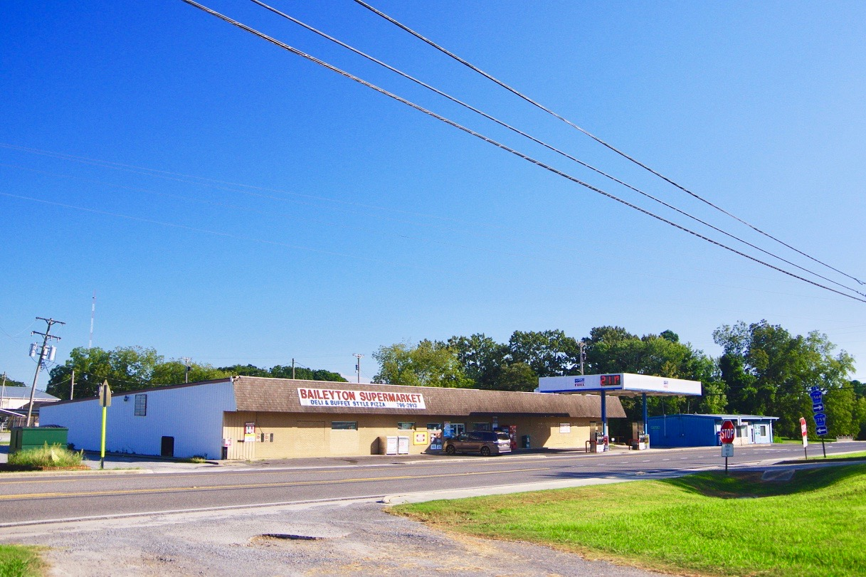 Baileyton Supermarket in Baileyton, Alabama, United States.